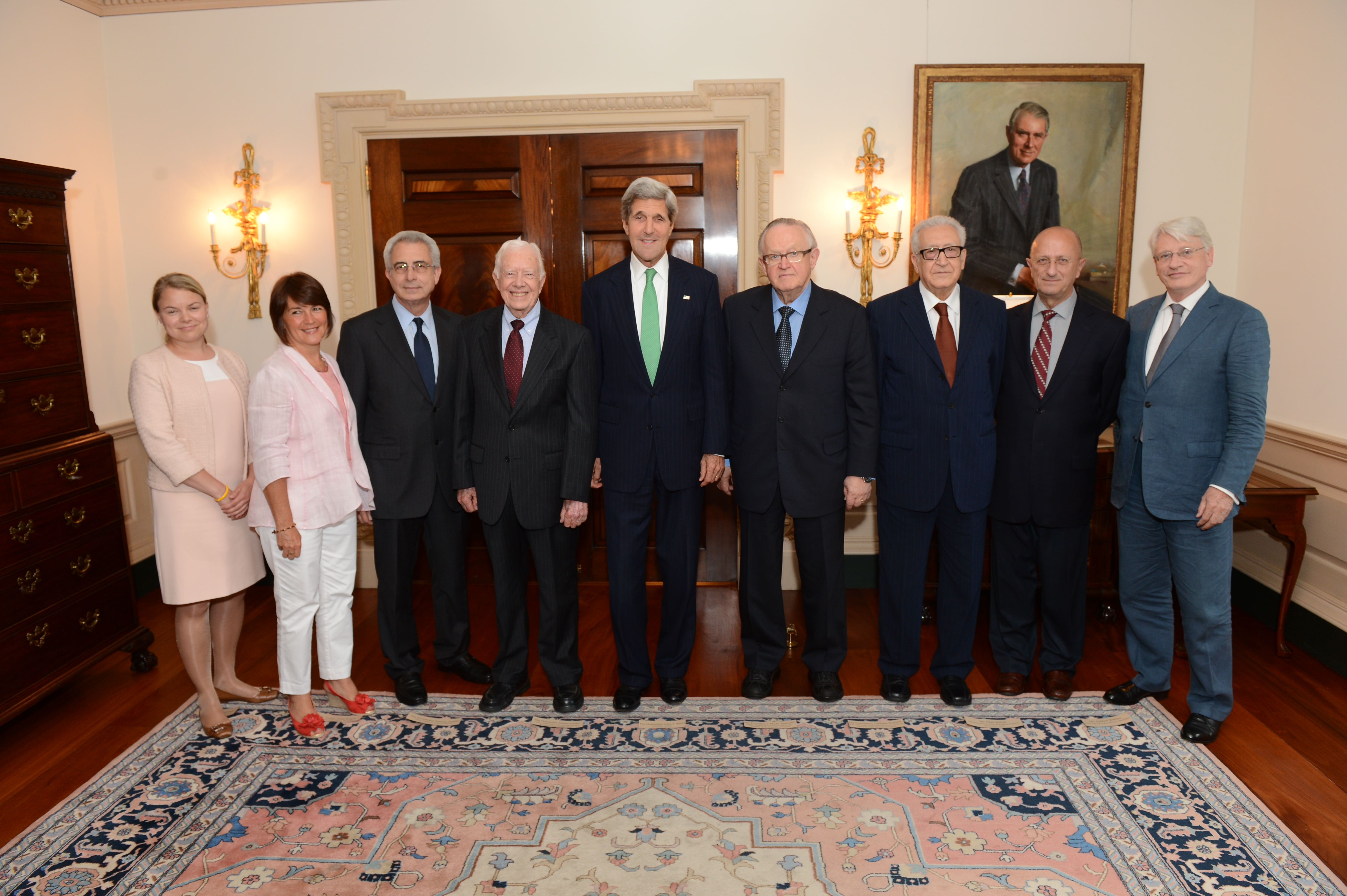 U.S. Secretary of State John Kerry meets with the Elders, an independent group of global leaders who work together for peace and human rights, at the U.S. Department of State in Washington, D.C., on July 22, 2013. [State Department photo/ Public Domain]